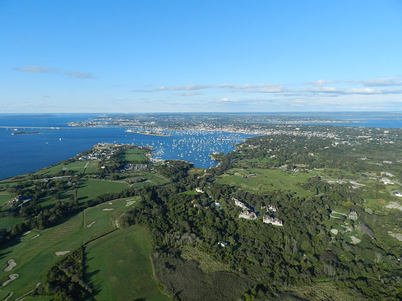 Newport, Rhode Island Aerial View from Robinson R44 Helicopter by Michael Kagdis